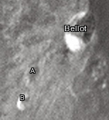 Bellot lunar crater as seen from Earth with satellite craters labeled